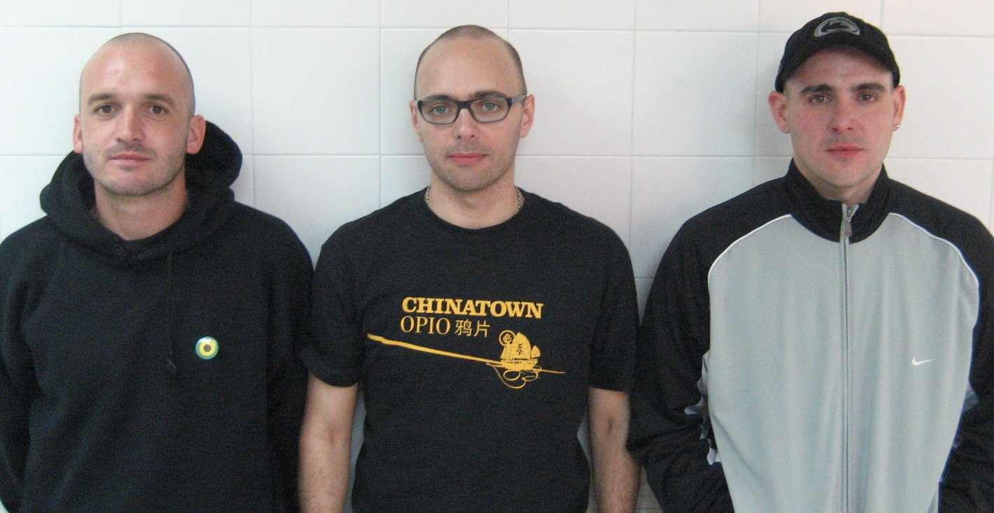 Chinatown is an spanish Hip hop band